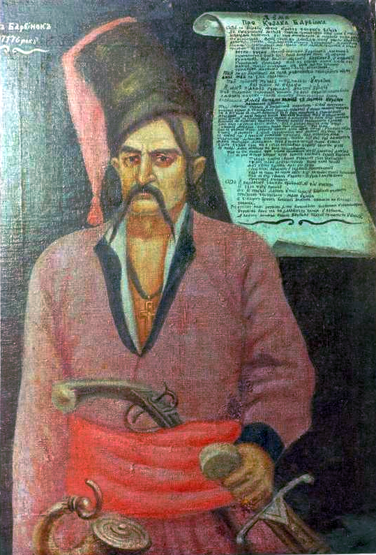 Ukrainian military and political historical figure, cossack of the Zaporizhzhya army, founder of the city Barvinkove, Ivan Barvinok.